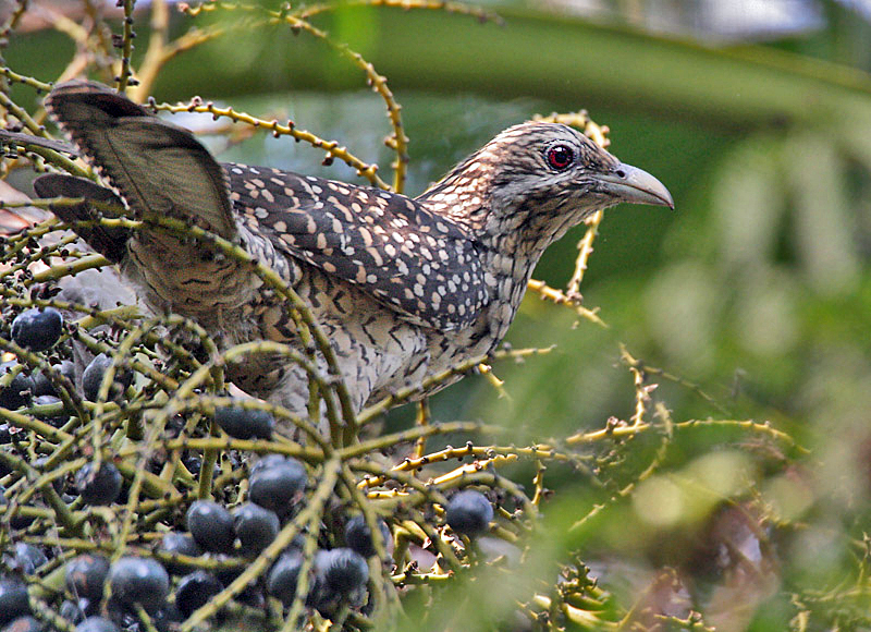 Asian Koel Eudynamys scolopaceus in Kolkata, West Bengal, India.